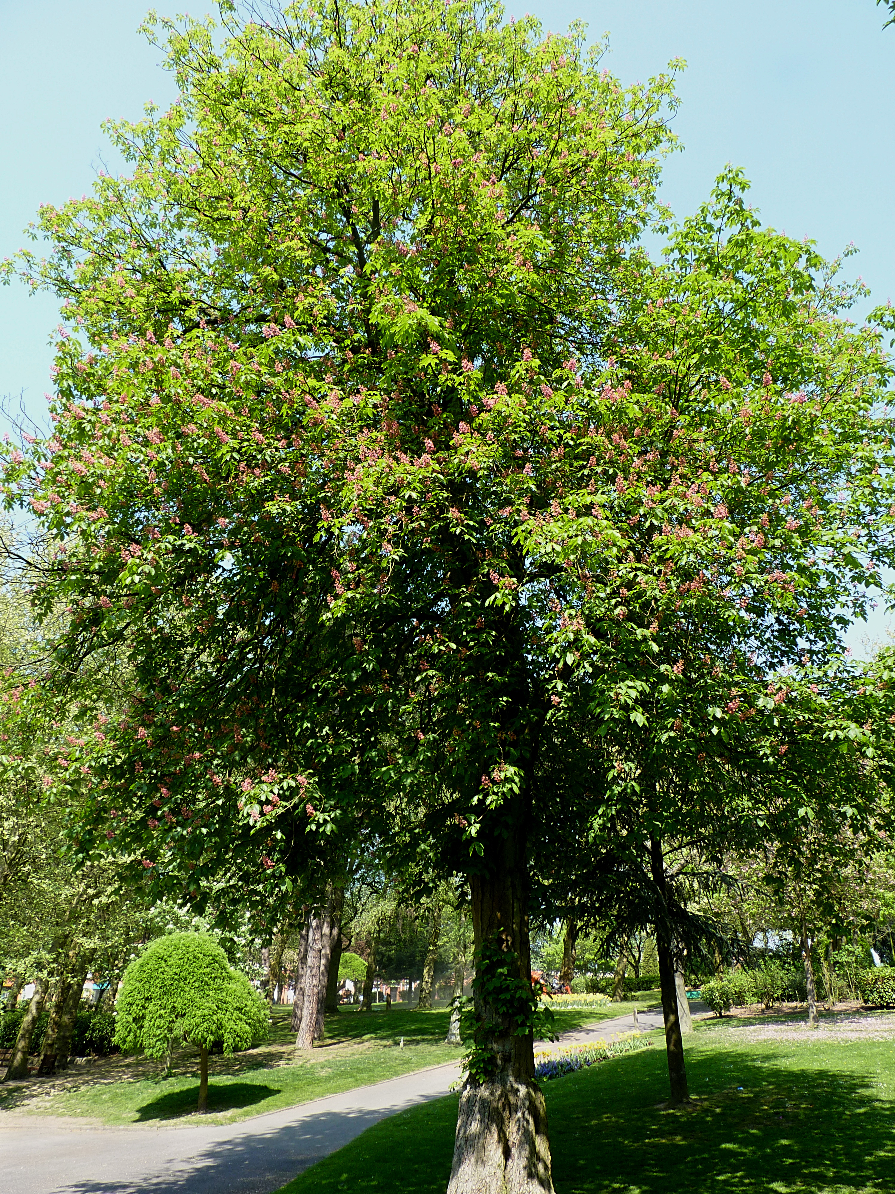 Aesculus carnea 'Briotii', in the municipal park of Mouscron (Belgium).